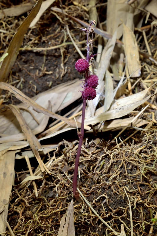 Sciaphila secundiflora Thwaites ex Benth. 錫蘭霉草